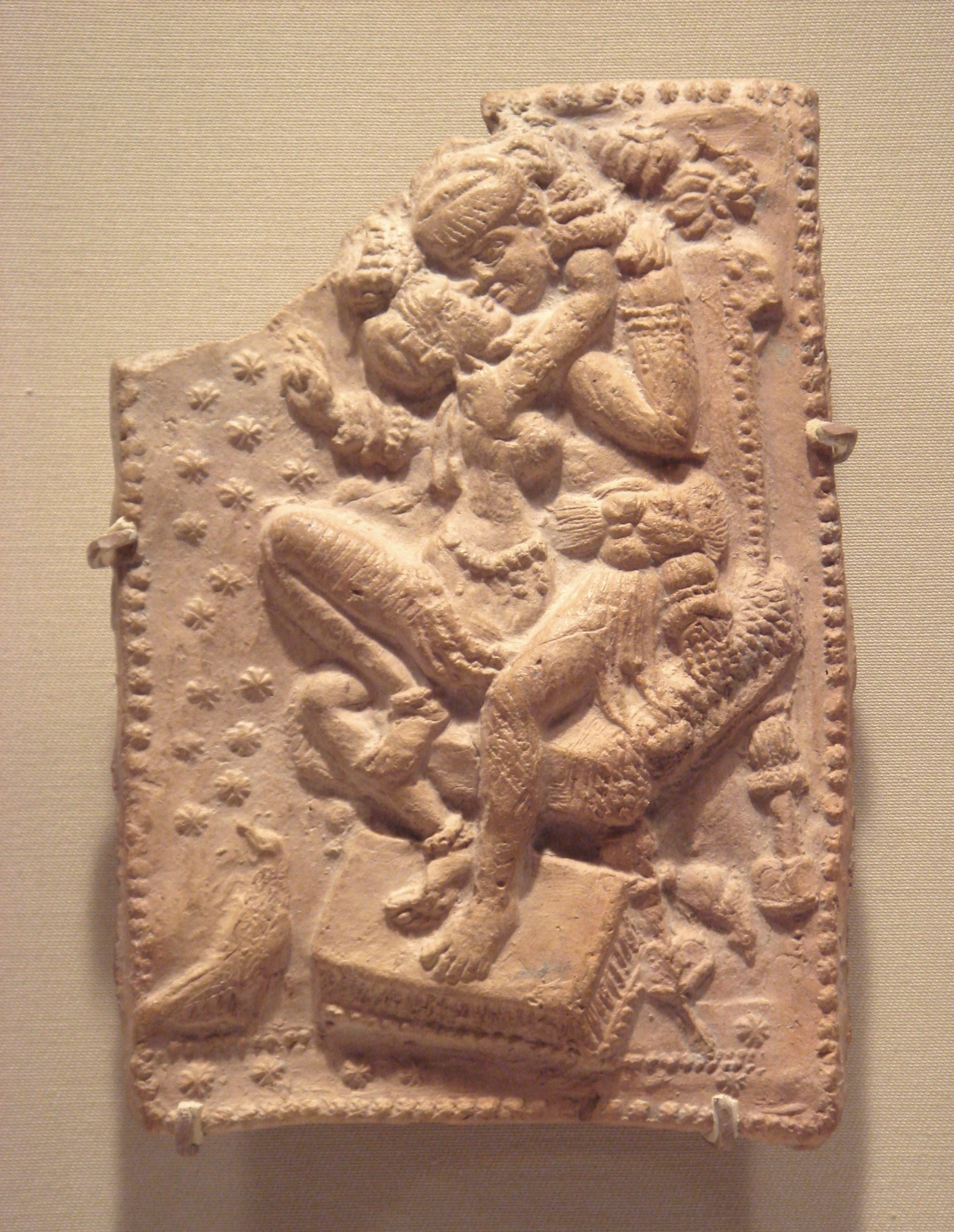 Amourous_royal_couple_Sunga_1st_century_BCE_West_Bengal.